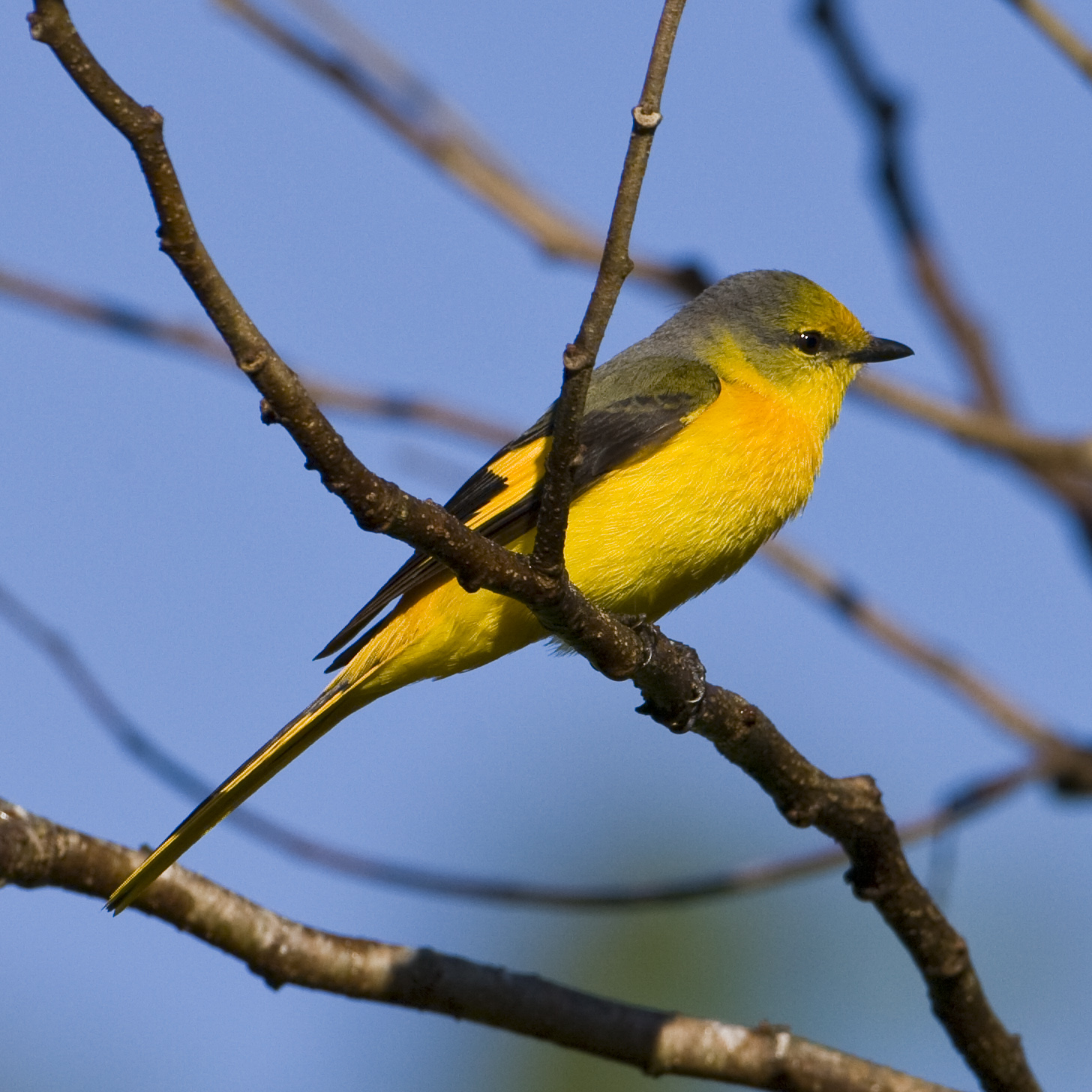 Doi Inthanon, Thailand - about 1,300 metres.